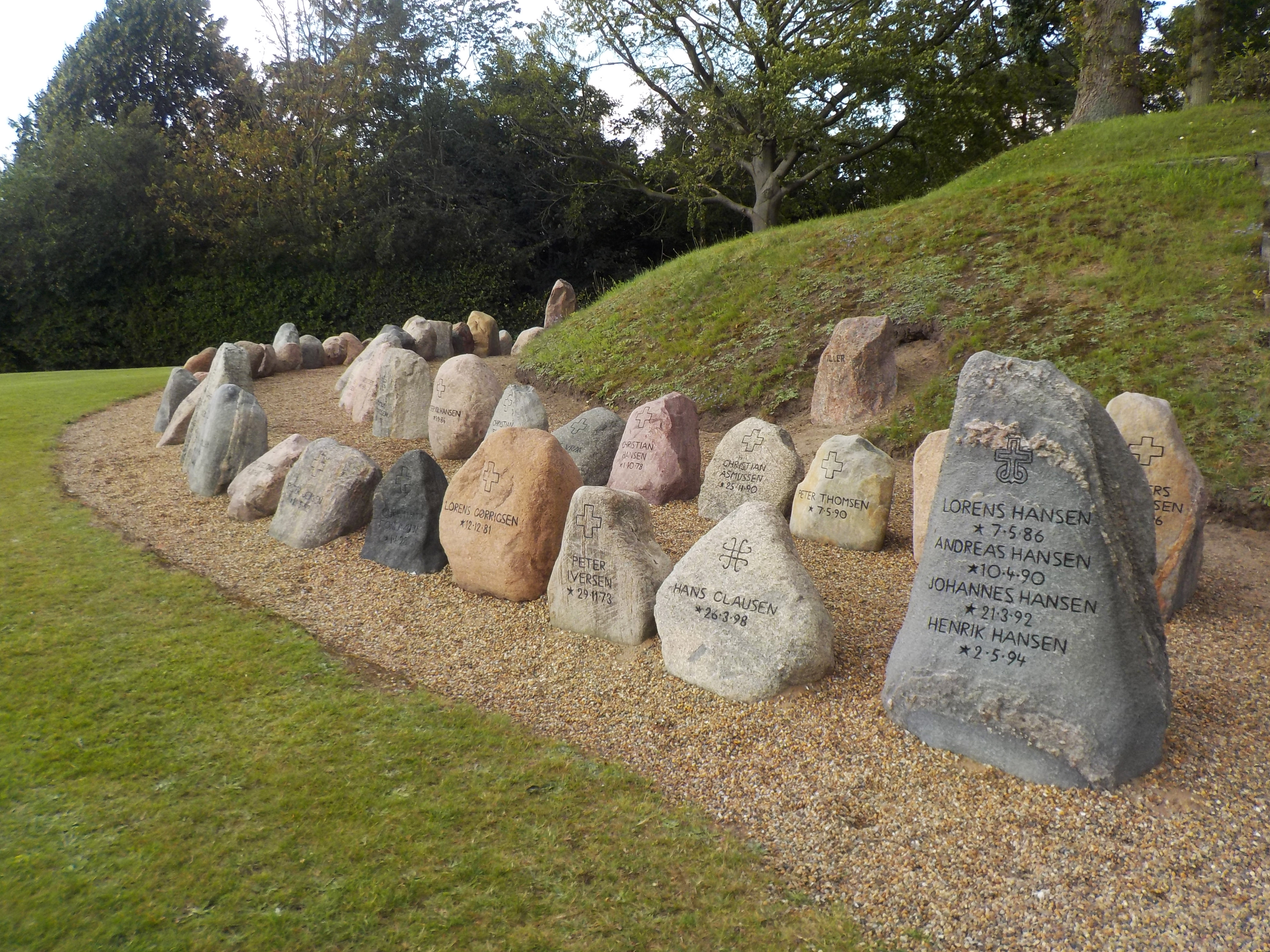 The memorial mount on the cemetery of Broager ...